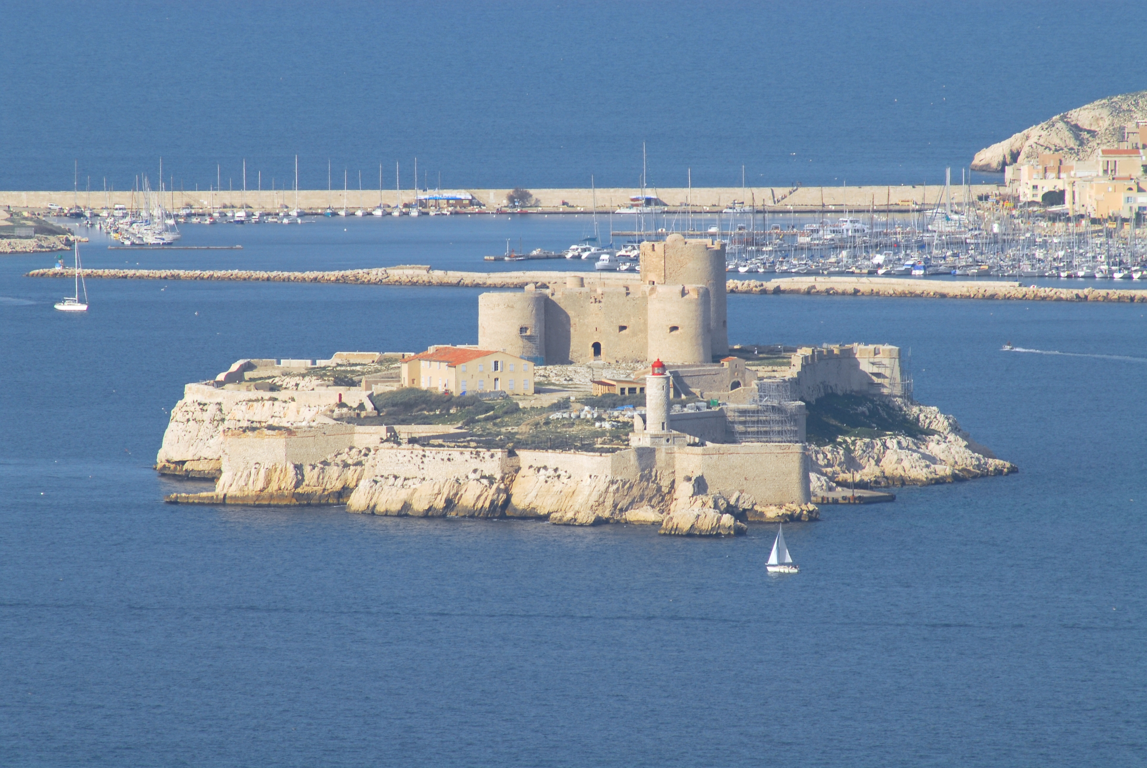 The Isle d'If with Chateau d'If near Marseille, France, as seen from Notre Dame de la Garde, Marseille, France